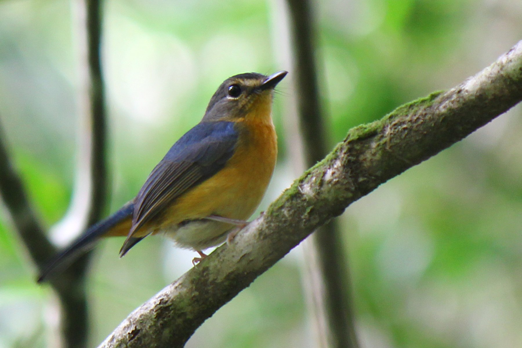 female of Mangrove Blue Flycatcher Cyornis omissus at Tomohon, North Sulawesi